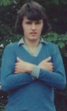 Ref: C1/782